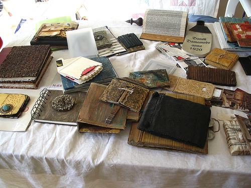 Artists´Books made by the Danish artist group X-piir